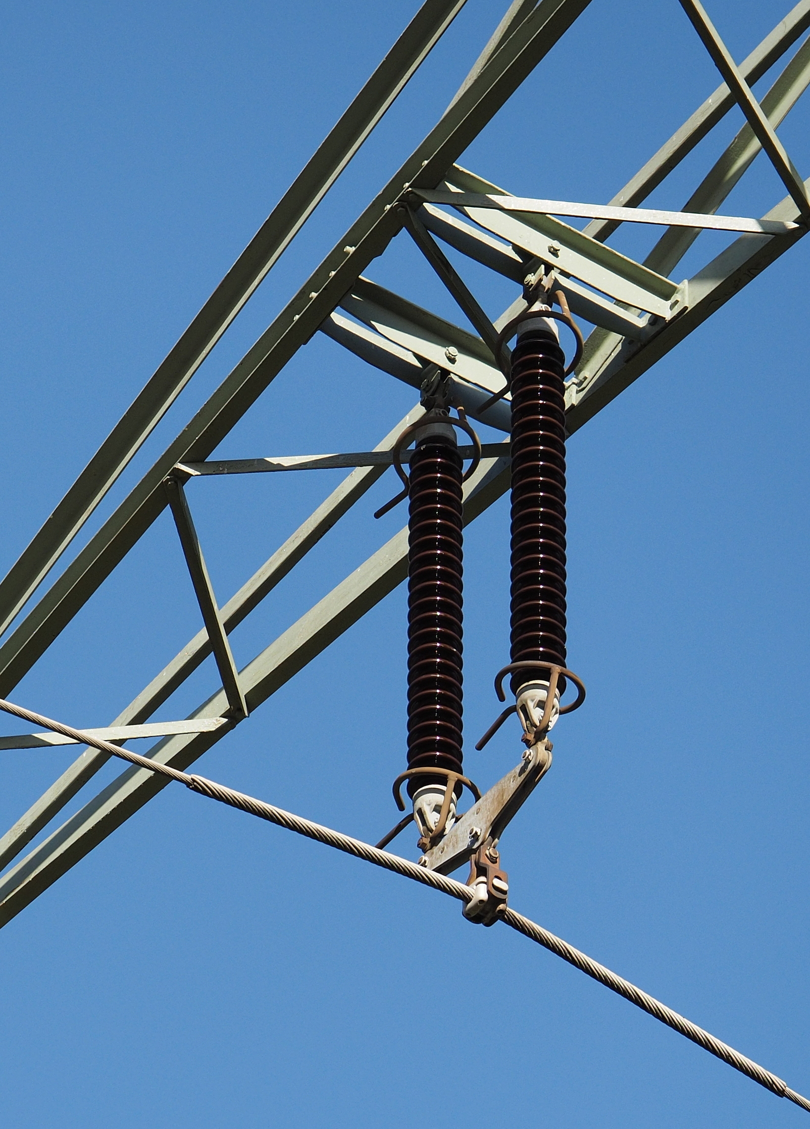 Insulators bearing a conductor of a 110 kV line in Schwäbisch Gmünd, Germany